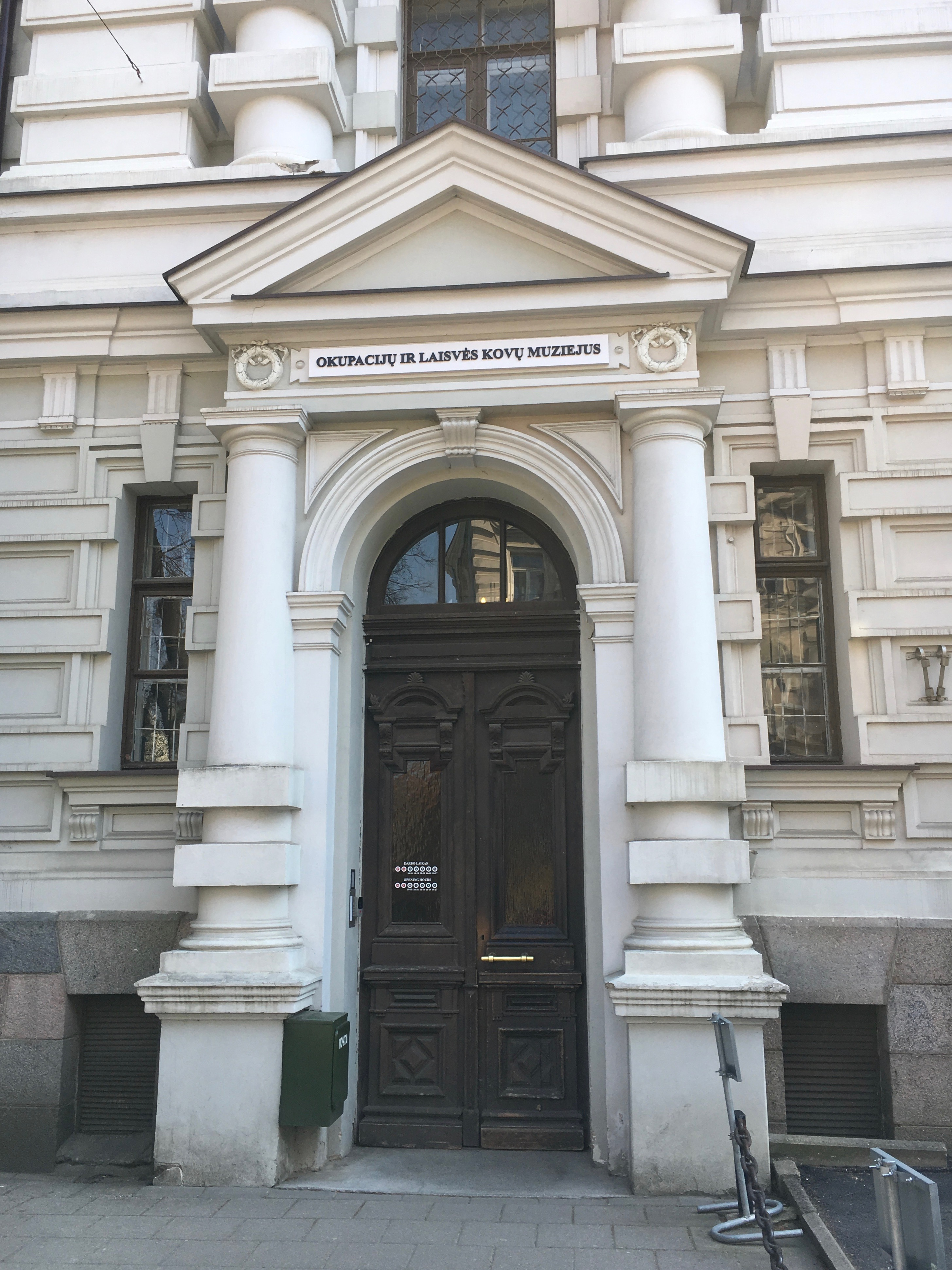 Museum of Occupations and Freedom Fights - entrance Аҧсшәа: Okupacijų ir laisvės kovų muziejus - įėjimas